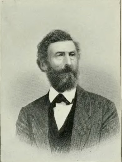 Illustration in History of Iowa From the Earliest Times to the Beginning of the Twentieth Century